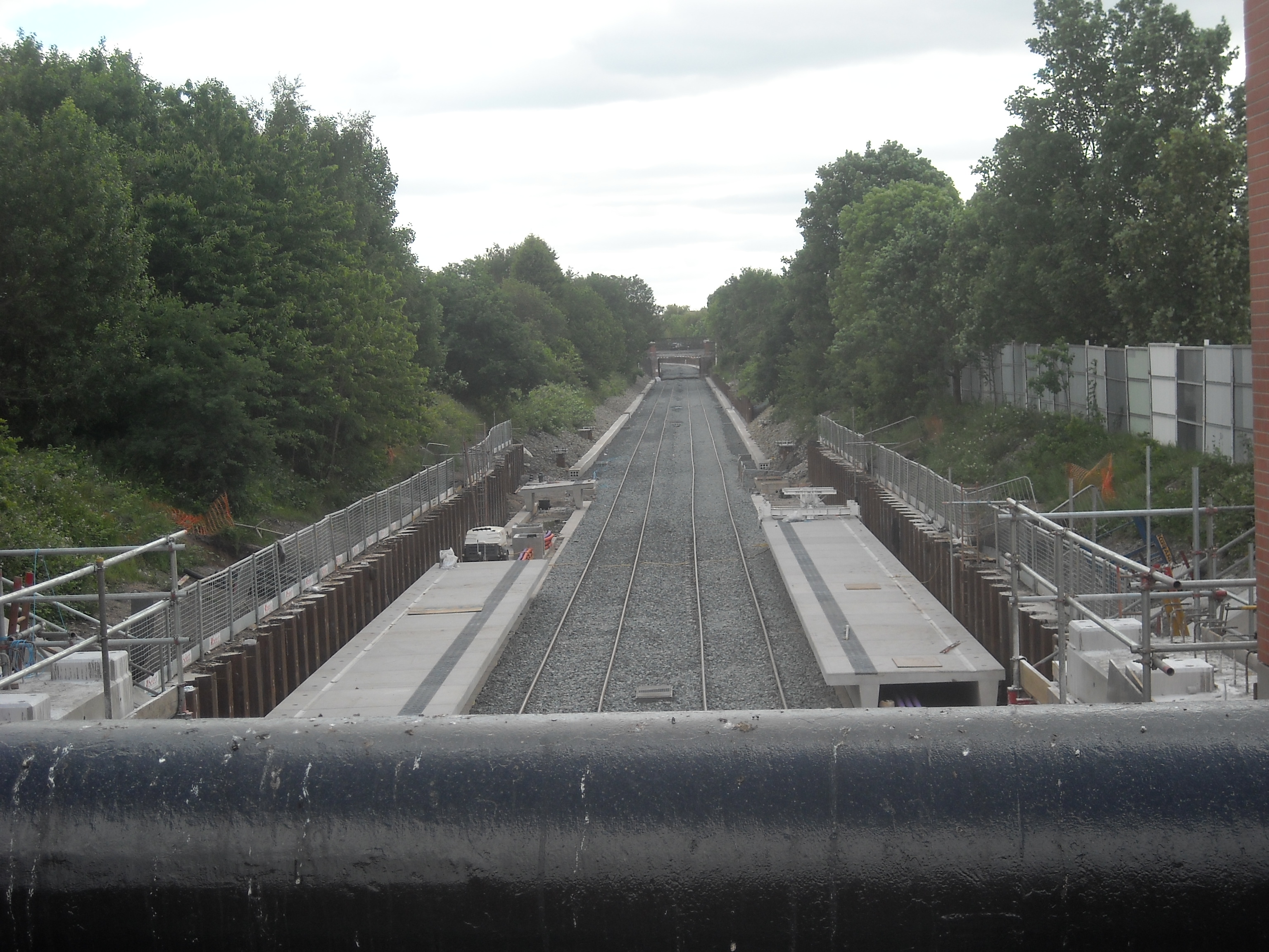 Taken on Saturday 19th June, this is going to be Firswood Metrolink Station and will link Manchester Airport and Rochdale via Wythenshawe, Didsbury and Chorlton. It's quiet literally next to my old school